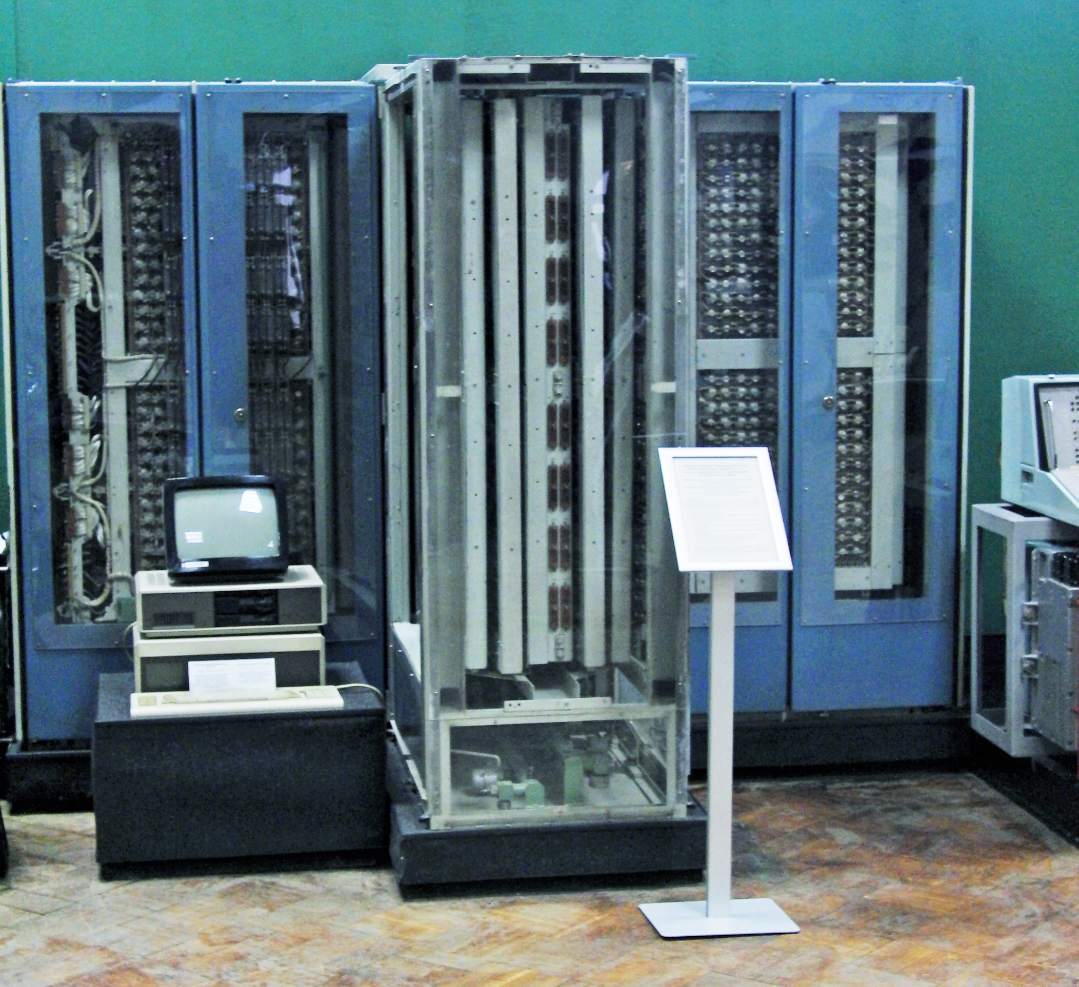 Moscow Polytechnical Museum, Elbrus, soviet supercomputer